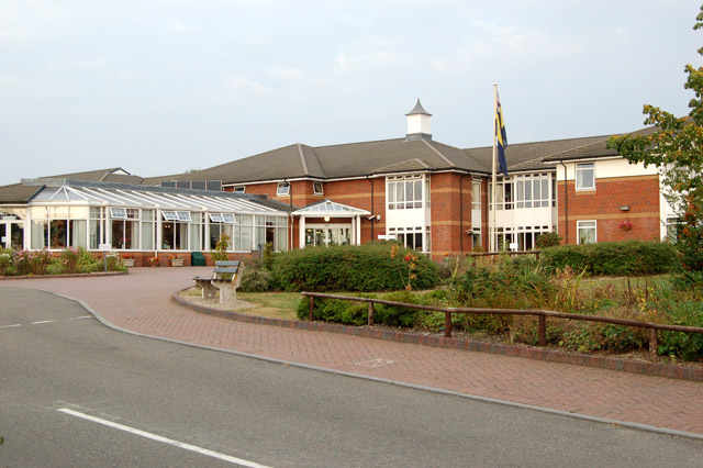 'Galanos House' British Legion residential home, Southam